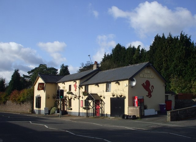 The Red Lion, Bonvilston, Vale of Glamorgan